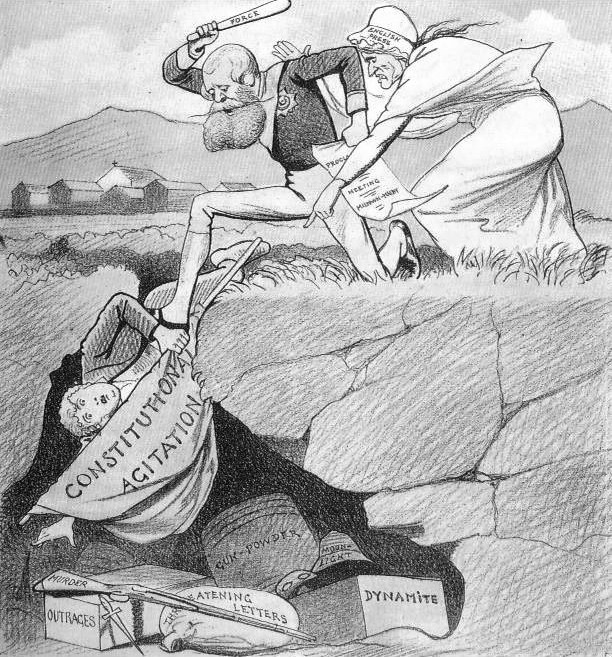 Supplement given with the Weekly Freeman of October 1883; by John Fergus O'Hea